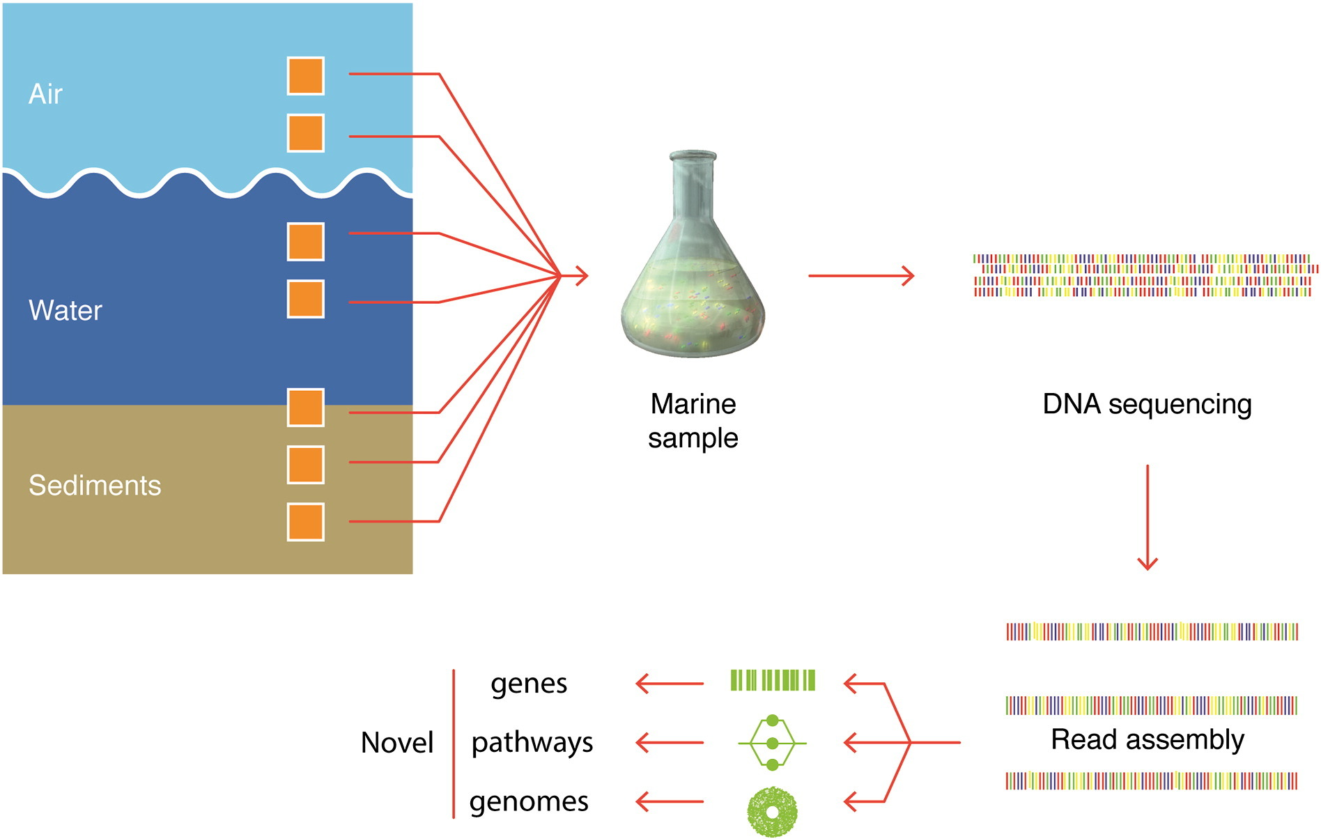 DNA sequencing technologies used in marine metagenomics The discovery process involves marine sampling, DNA sequencing and contig generation. Previously unknown genes, pathways and even whole genomes are being discovered. These genome-editing technologies are used to retrieve and modify valuable microorganisms for production, particularly in marine metagenomics. Organisms may be cultivable or uncultivable. Metagenomics is providing especially valuable information for uncultivable samples.